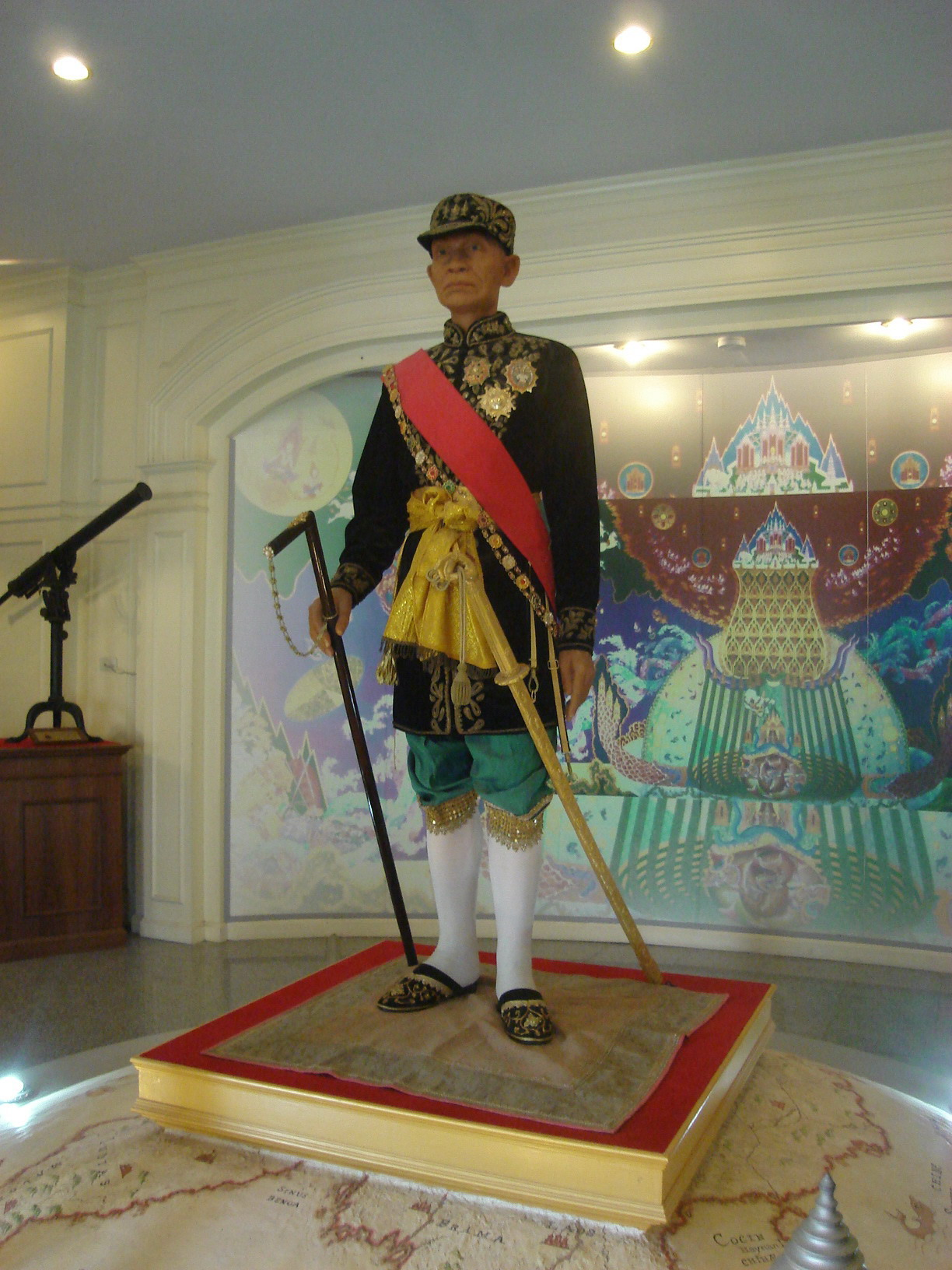 wax model of Phrabatsomdet Phra Pora Men Thon Maha Mongkut Sutthi Sommut Thepphaya Phong Suang Sa Di Son Kasatri Won Khat Tiya Rat Nik Ro Dom Cha Tu Ran Top Rom Maha Chakkraphat Rat Sangkat Chakkri Borom Nat Adi Sawa Rat Ram Warang Kun Bu Rapha Dun Yok Rue Sada Phi Ni Han Supha Thi Kan Rang Srit Di Thanya Lak Sana Wichit So Phak Sanphang Maha Chanot Ma Ngok Pra Not Batbongkot Yuk Khon Prasitthi Sap Supha Phon Udom Borom Sukhuman Yom Ha Bu Ru Sai Rattana Sueksa Phi Phatthana Sap Koson Su Wi Sutthi Wimon Suppha Sin Sama Chan Phet Yan Prapha Phairot Anek Ko Di Sathu Khun Wibun Yasan Dan Thipphaya Thep Watan Phaisan Kiatkhun A Dunya Phiset Sap Thewet Ra Nu Rak Ek Akkhara Maha Burut Sut Phut Maha Krawi Tri Pit Ka Thi Koson Wimon Pricha Maha Udom Bandit Sunthon Wichit Patiphan Boribun Khun San Satsa Ya Ma Thi Lakoi Dilok Maha Pariwan Nayok Anan Mahanta Won Rit Thi Det Sap Phiset Sirindhorn Mahachon Nikon Samoson Sommot Prasitthi Won Yot Maho Dom Borom Rat Sombat Nop Padon Sawet Chat Ra Di Chat Siri Rat No Plak Sana Maha Borom Racha Phi Se Ka Phi Sit Sap Thotsathit Wichit Wi Chai Sakon Mahai Sawa Rin Maha Saya Min Thon Mahesuan Mahin Thon Maha Racha Warodom Borom Nat Chat A Chao Sai Phut Tha Thi Trai Rattana Sarana Rak Metta Karuna Sitalaharuethai Anop Mai Bun Kan Sakon Phaisan Maha Ratsada Thi Ben Thon Pora Men Thon Tham Mik Maha Rachathirat Borom Nat Borombophit Phrachomklaochaoyuhua (King Rama IV) in KINGMONGKUT MEMORIAL PARK OF SCIENCE AND TECHNOLOGY, Prachuap Khiri Khan, Thailand.